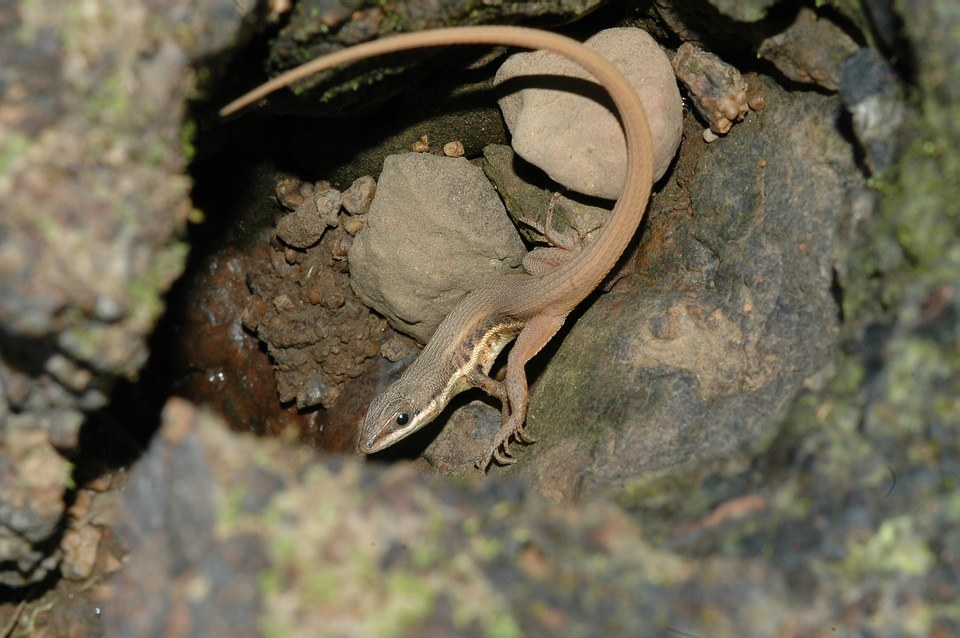 (Possibly Ophisops beddomei?)